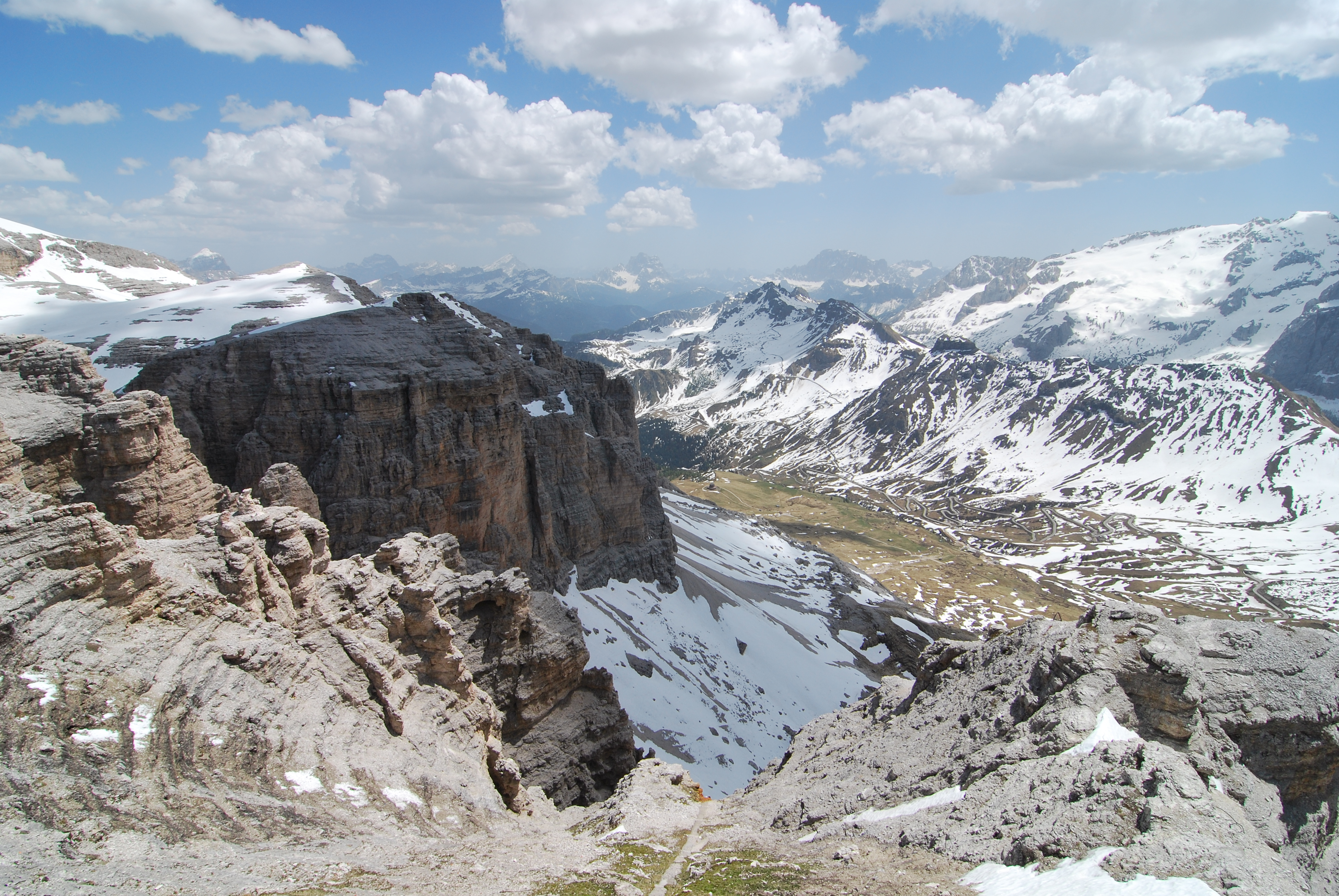 View from a cable car above and to the north of Pordoi Pass looking southeast towards Route SR 48 (strada regionale 48 delle Dolomiti). To the left, the summit of Sass Pordoi is in shadow.